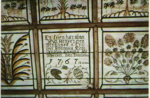 Painted, coffered ceiling of the church in Gyügye